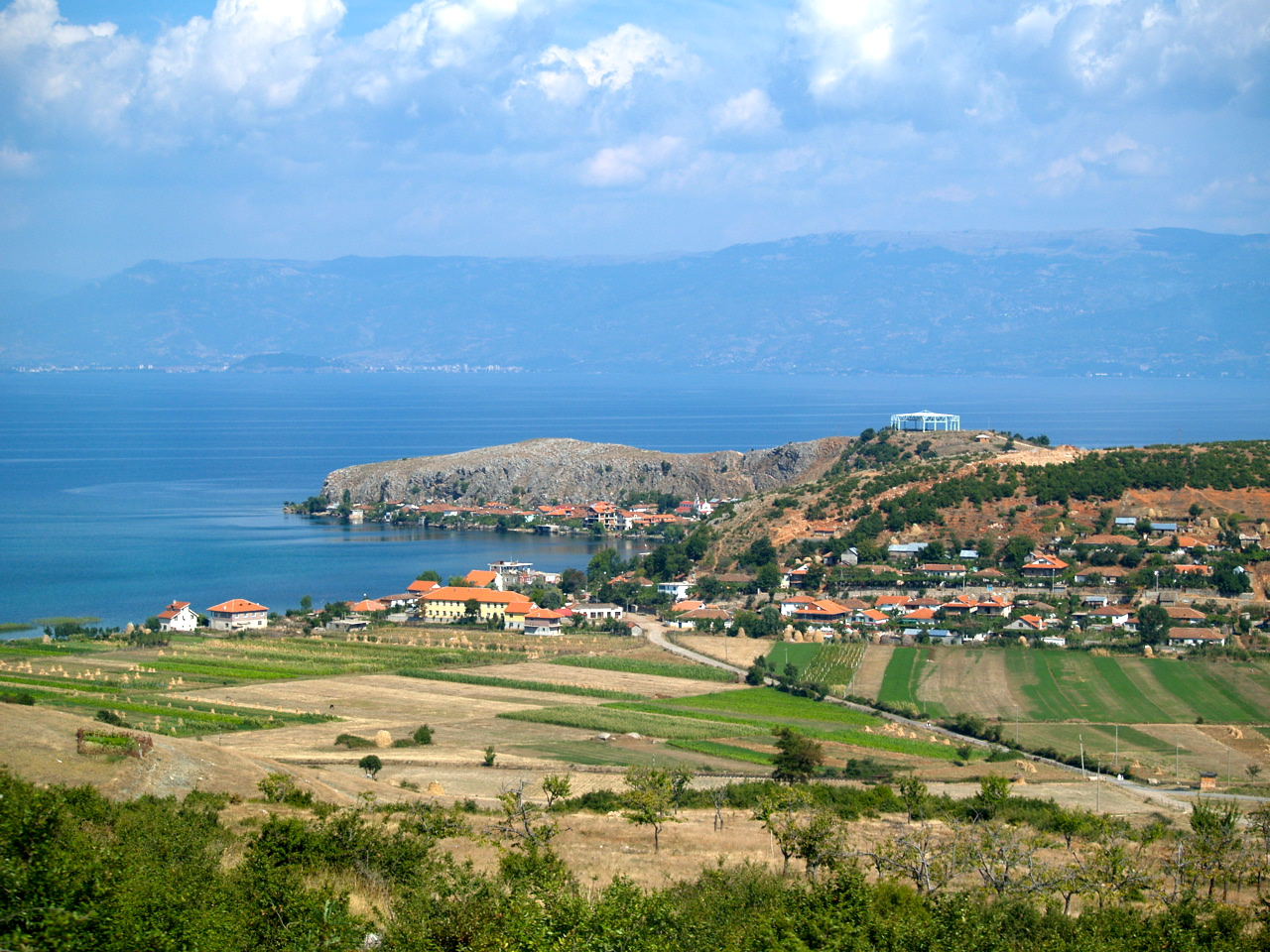 Village of Lin on the shores of Lake Ohrid, Albania